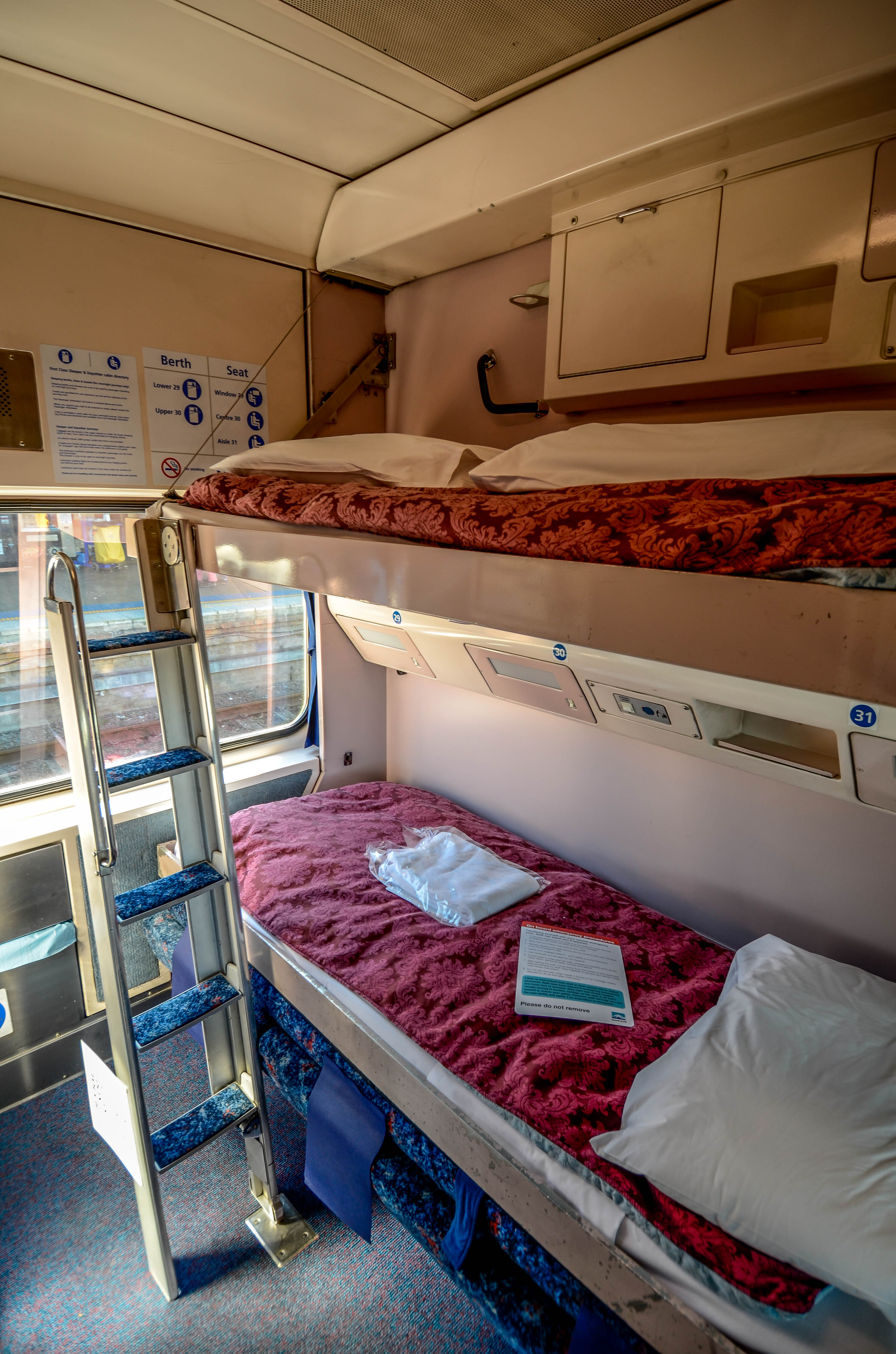 NSW TrainLink XPT First Class Sleeper